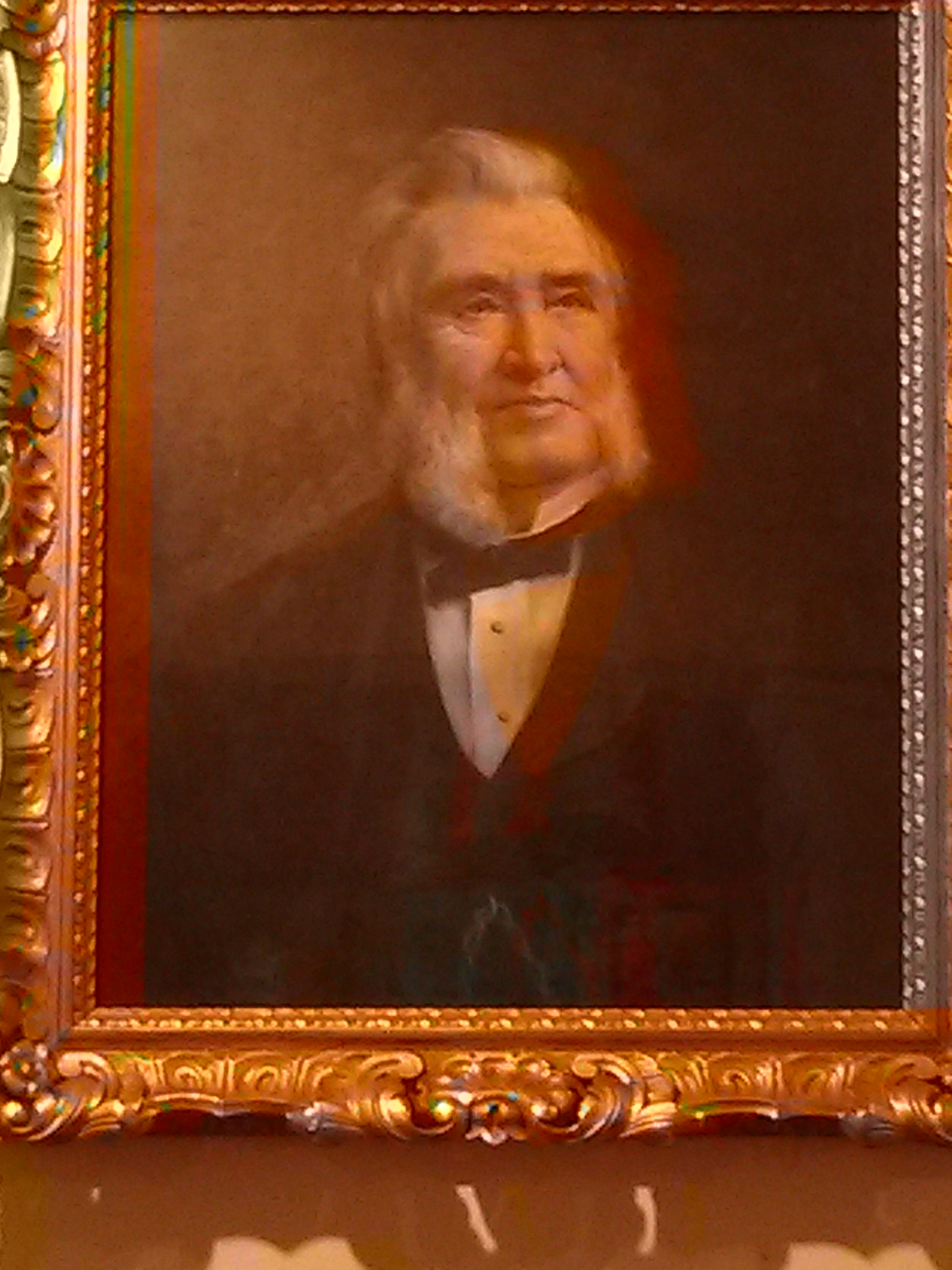 provost of Kirkcaldy in 1874 unknown artist